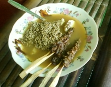 Lontong kupang, which is rice cake served with small saltwater clams (Corbula faba H), is a specialty dish in the area of East Java, Indonesia, especially in Surabaya and Sidoarjo.